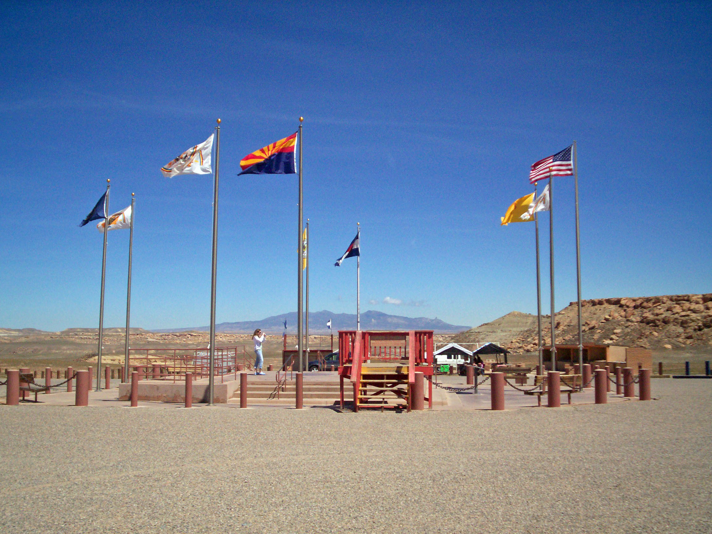 Four Corners Monument April 2007 by David Jolley